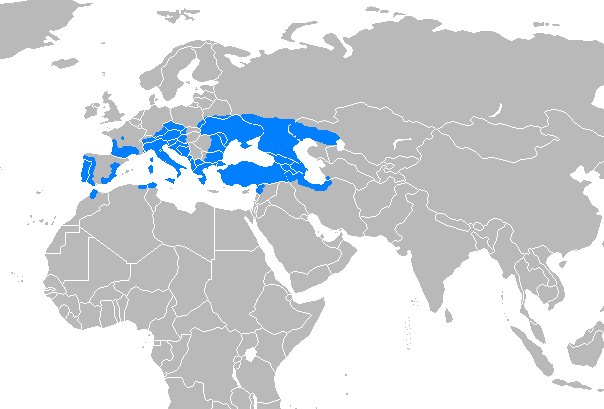 Distribution map of the European pond terrapin Emys orbicularis.